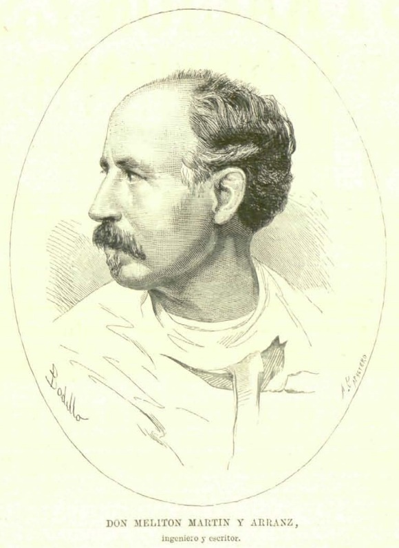 Melitón Martín y Arranz, ingeniero.